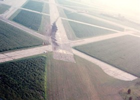 Photos of UAL 232 Initial Touchdown Area